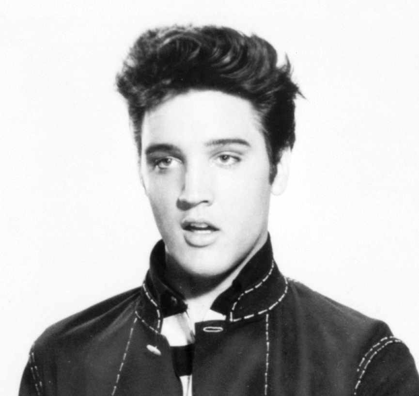 A cropped photograph depicts singer Elvis Presley's bust.